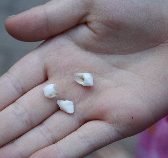 An 8 year old's gift to the tooth fairy.